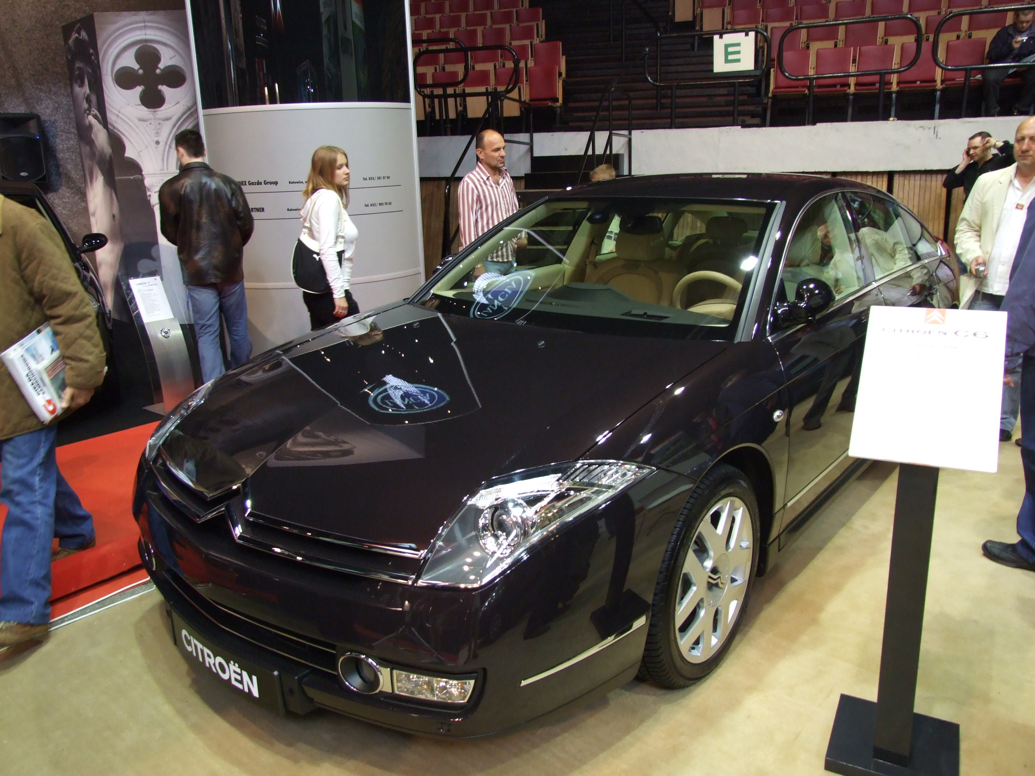 Citroën C6 at Auto Moto Show 2008 in Katowice